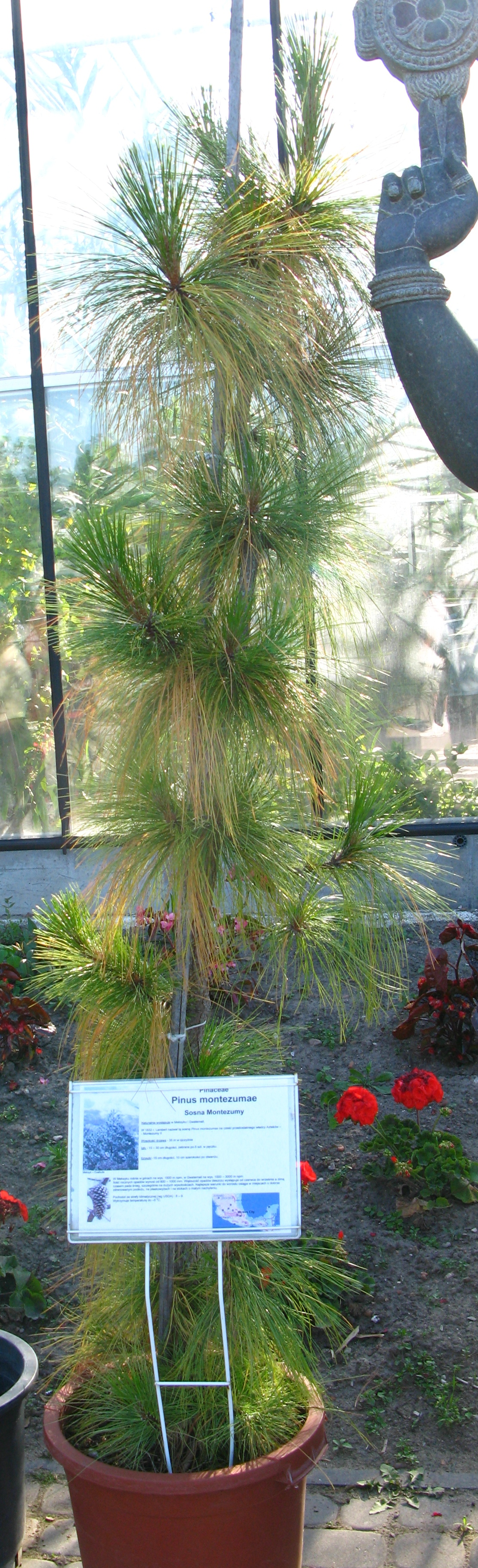 Pinus montezumae in PAN Botanical Garden in Warsaw